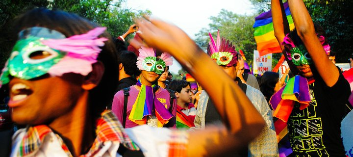 This is an image from the queer pride parade held in Delhi in 2010.